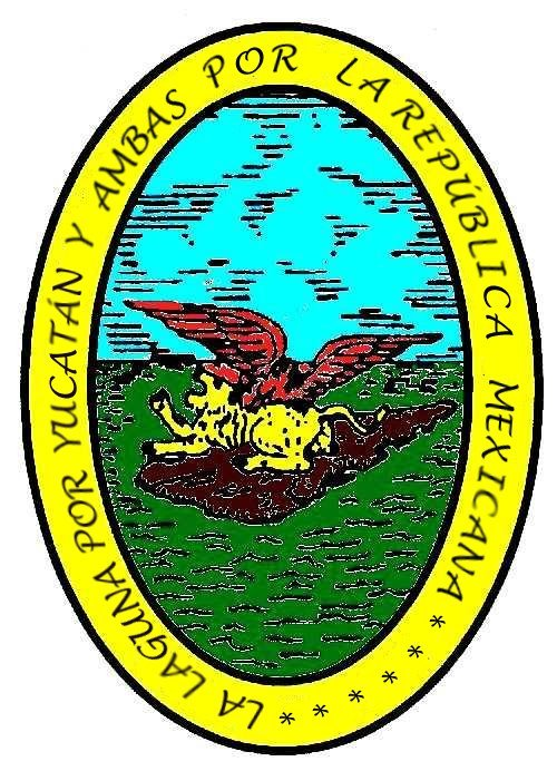 The shield del Carmen is an oval bounded by a gray edge that has the name of the city and state to which it belongs. In the center of the oval is the Laguna de Términos and on it the Isla del Carmen. The lion symbolizes the European siege to Mexico during Spanish rule and the French intervention, is about the island and it hurts him an eagle with its beak and claws. The brown eagle, symbolizing the people, preventing a foreign country is involved in its territory and nation.